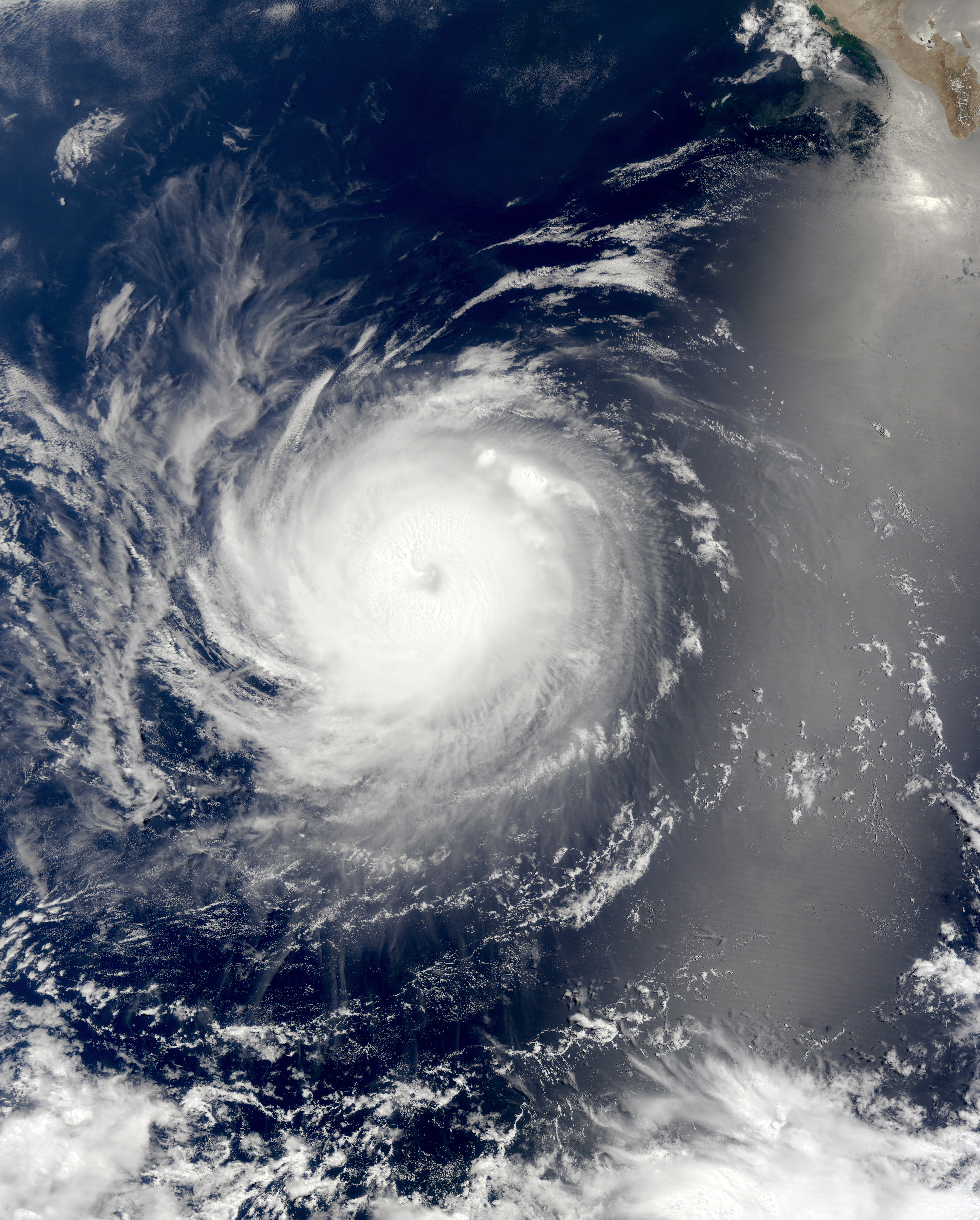 Hurricane Elida near peak intensity.